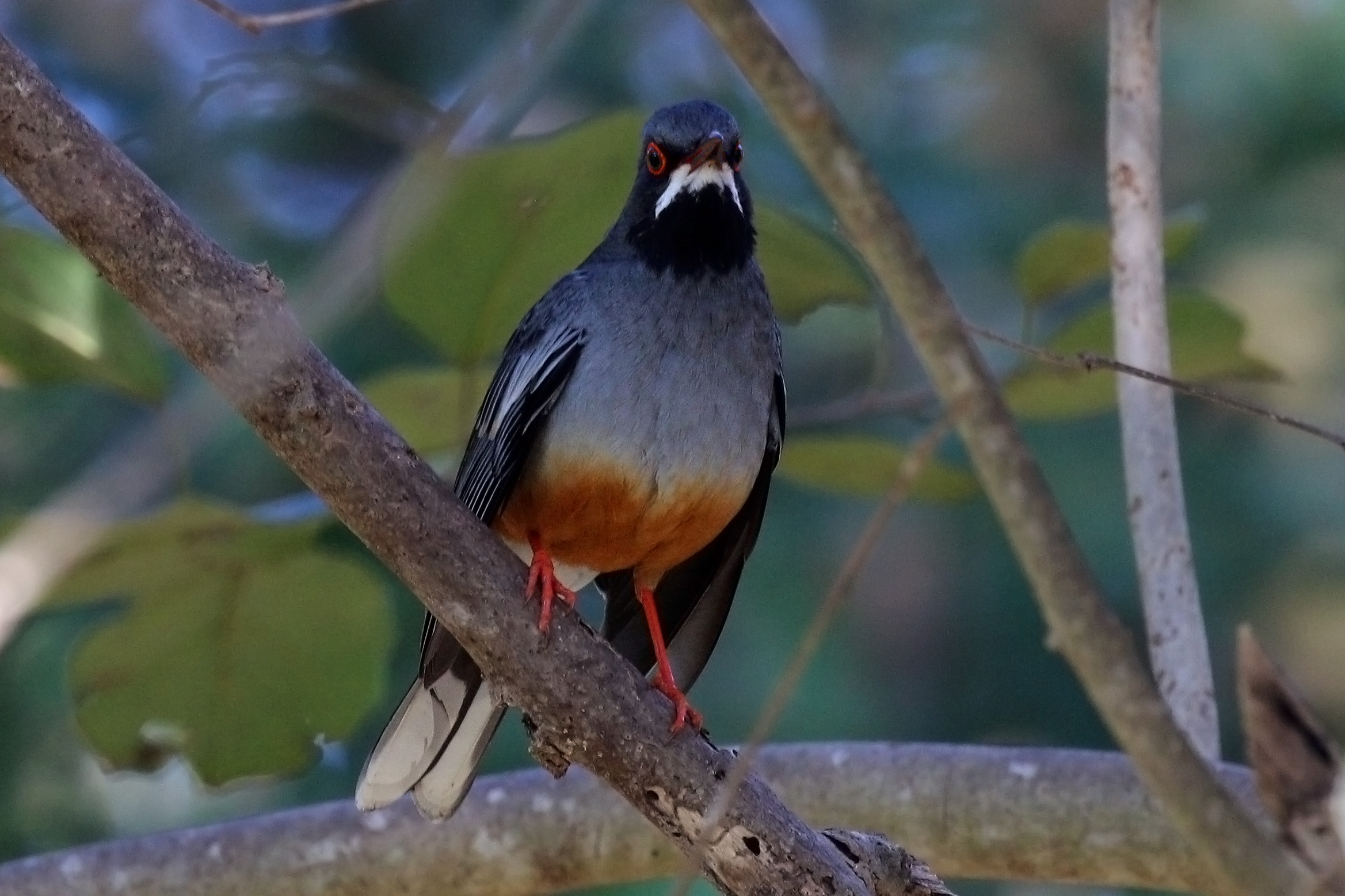 Red-legged thrush (Turdus plumbeus rubripes) chest, Cayo Coco, Cuba